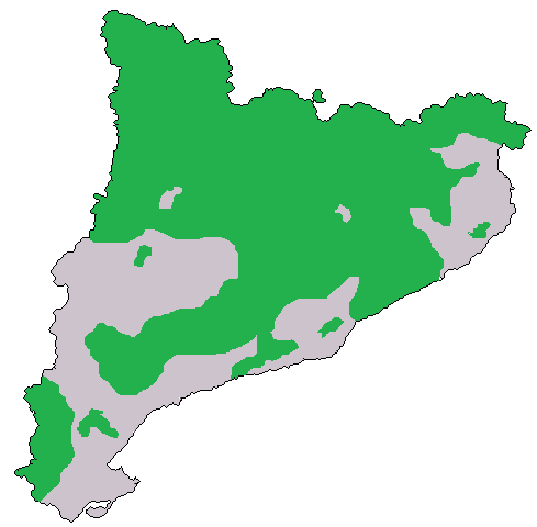 Distribution map of roe deer (Capreolus capreolus) in Catalonia. Source: gencat.cat/agricultura